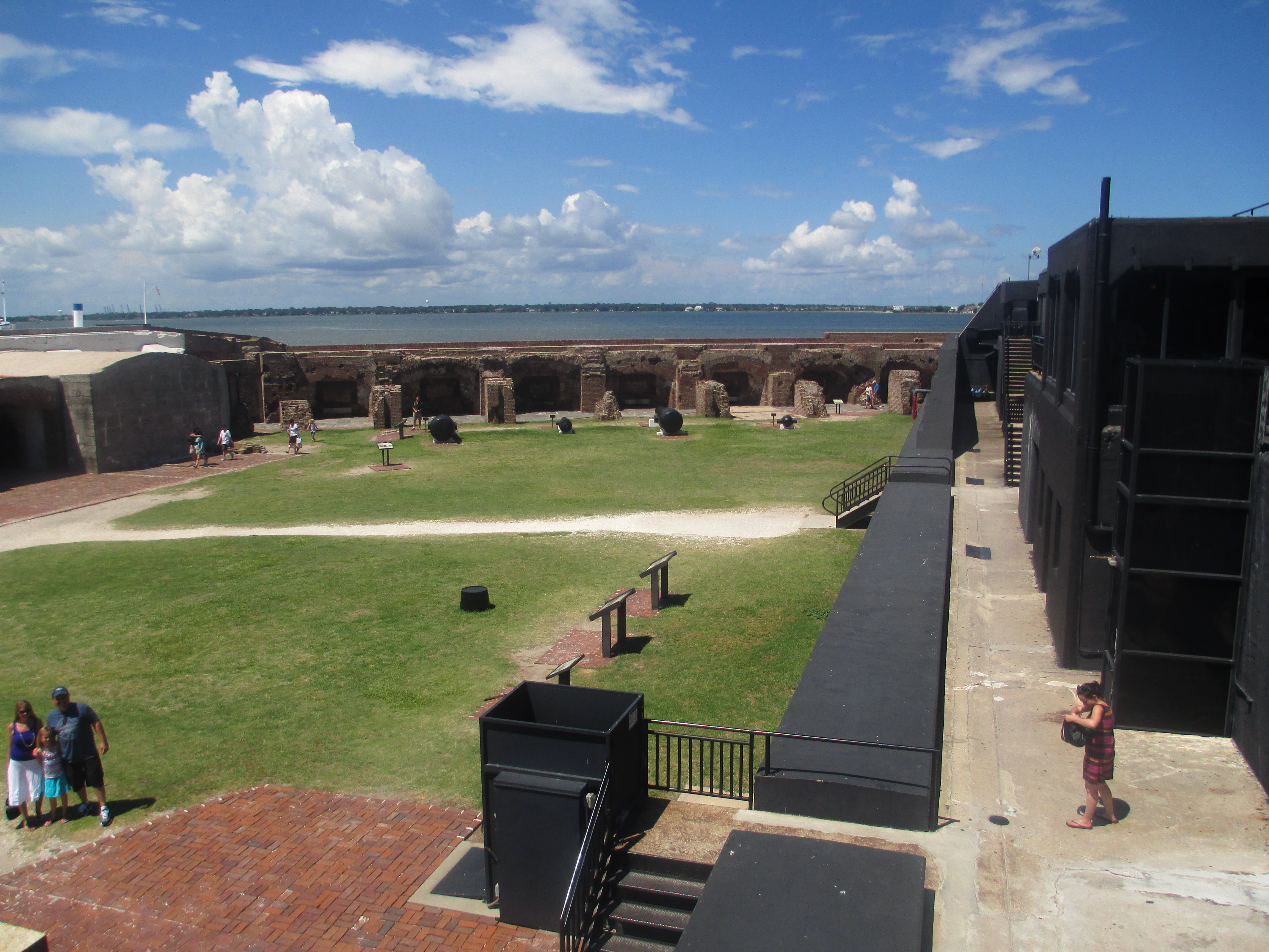 I took photo with Canon camera of interior of Fort Sumter.